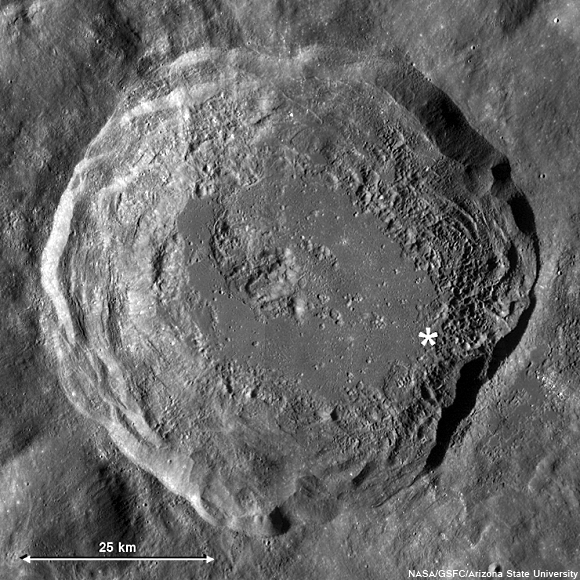 LROC Wide Angle Camera (WAC) monochrome mosaic of Ohm crater (18.309°N, 246.265°E, ~63 km diameter). Ohm's impact melt pond is not evenly distributed about the crater floor, appearing thicker in some areas (western portion of the crater) than other, more hummocky (eastern).